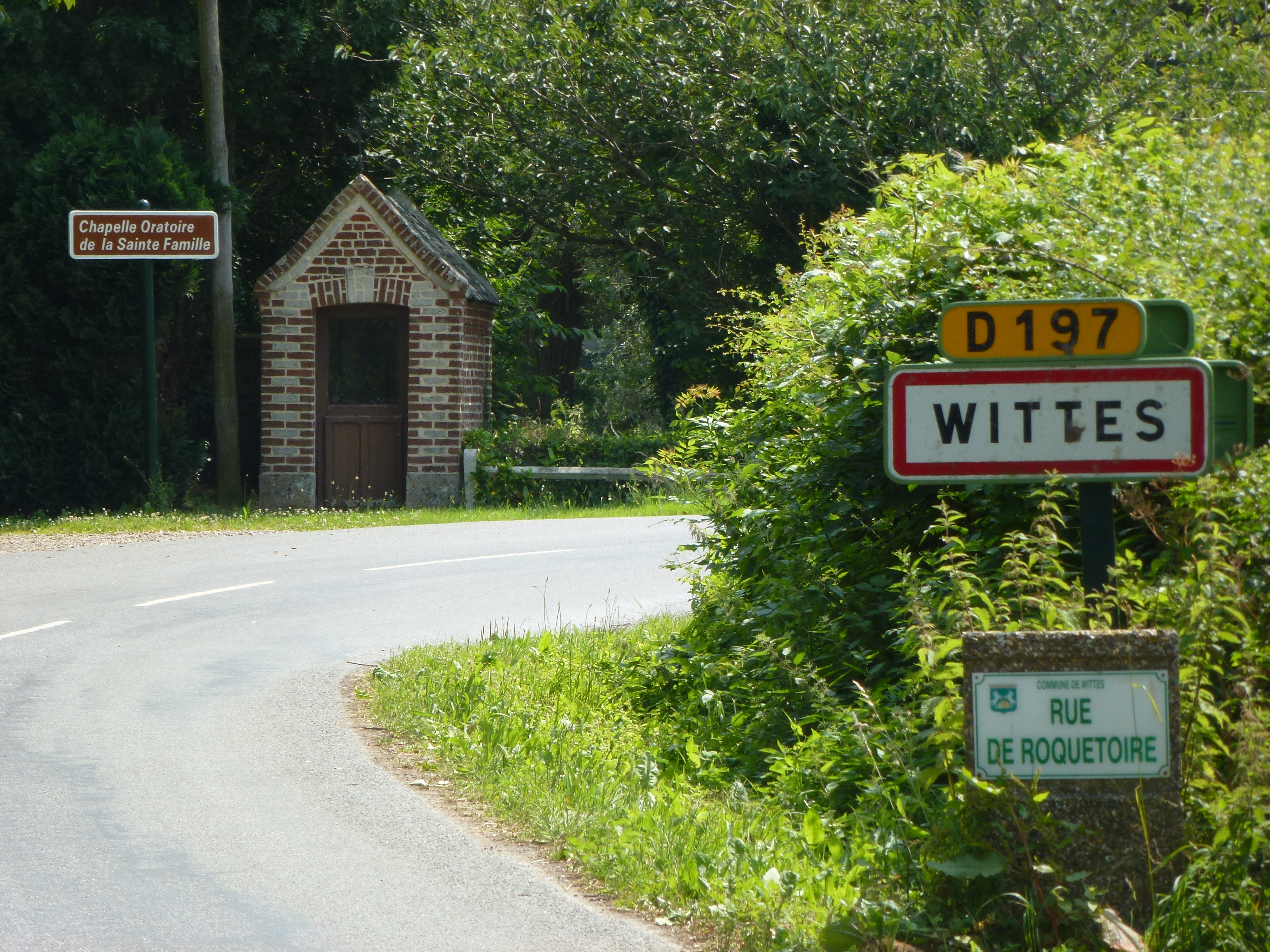 Wittes (Pas-de-Calais, Fr) panneau d'entrée, chapelle-oratoire de la Sainte Famille